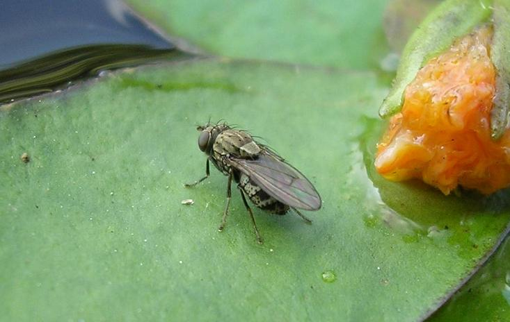 Male of Notiphila (Notiphila) watanabei Miyagi, 1966 (Ephydridae:Diptera:about 4mm long) on the leaf of a yellow floating heart (Nymphoides peltata) in a pound in Kita-ku, Tokyo, Honshu Is., Japan. This shore fly species is known from Hokkaido, Honshu, Shikoku and Kyushu, Japan. アサザの葉の上にいる雄のワタナベトゲミギワバエ（東京都北区）。北海道から九州に分布。体長約4ｍｍ。